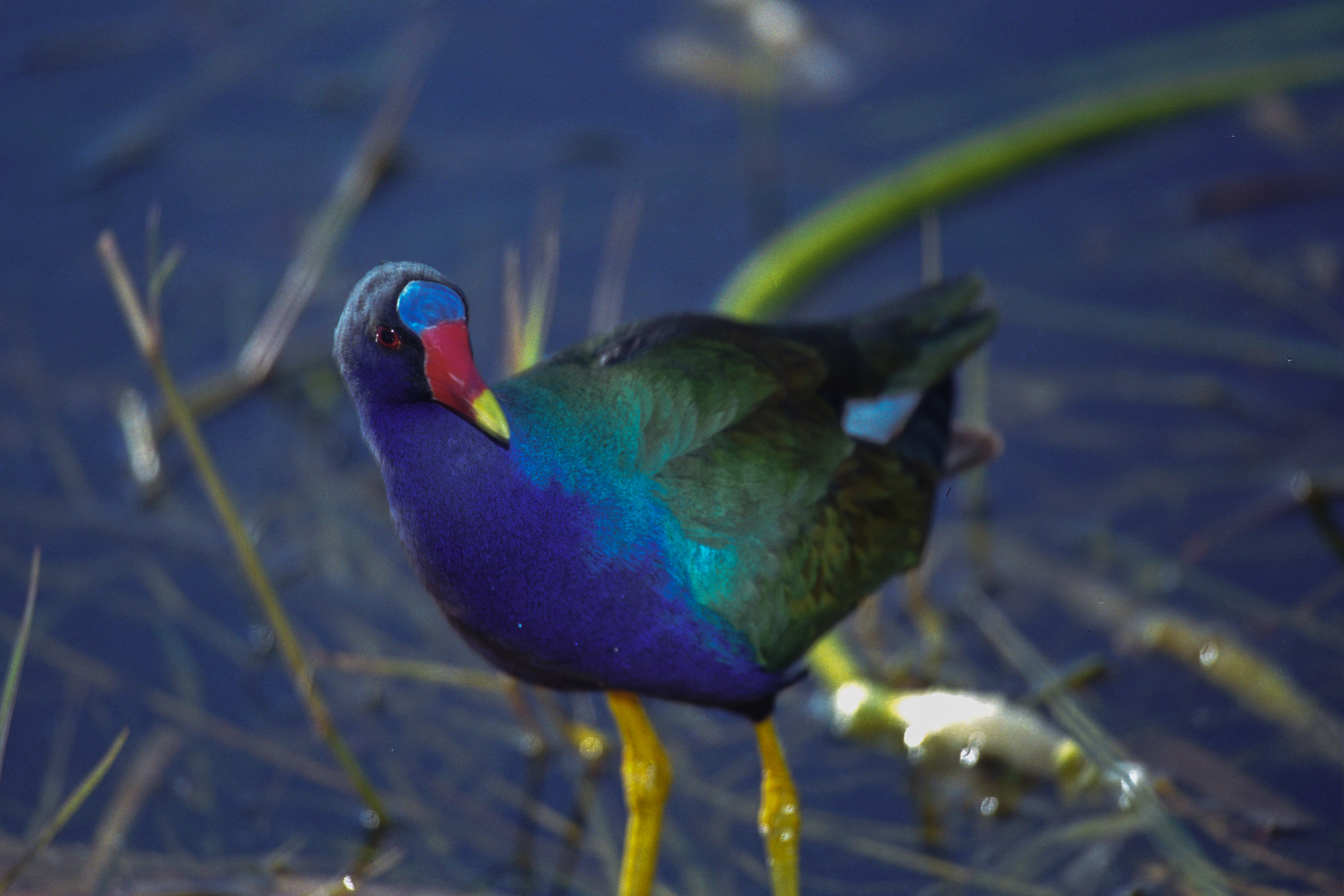 American Purple Gallinule(Porphyrio martinicus), Everglades NP